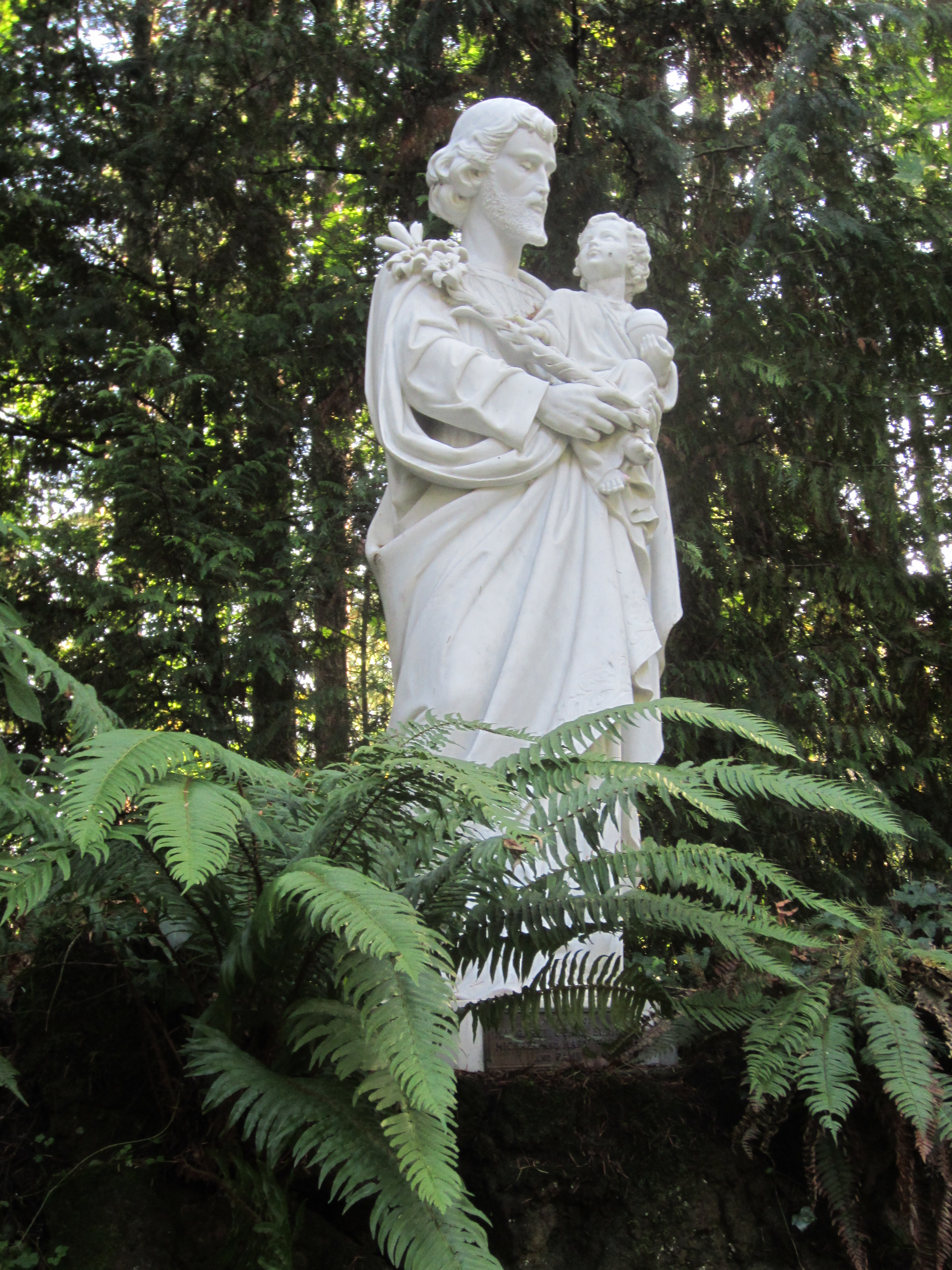 The Grotto, Portland, Oregon (2014)